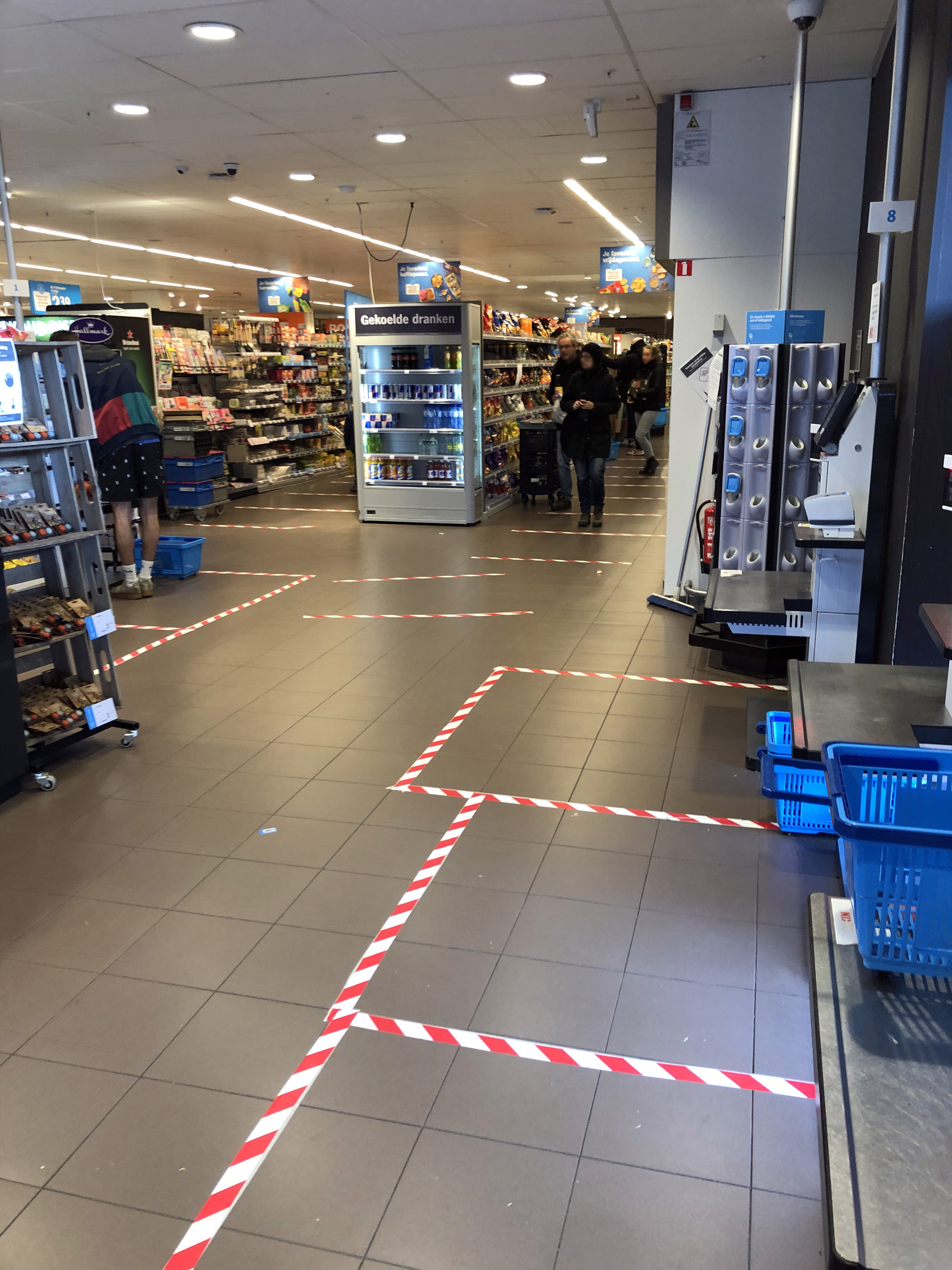 Taped lines on the floor of a supermarkt in Amsterdam, the Netherlands to suggest the distance between checkout booths during the coronavirus pandemic.